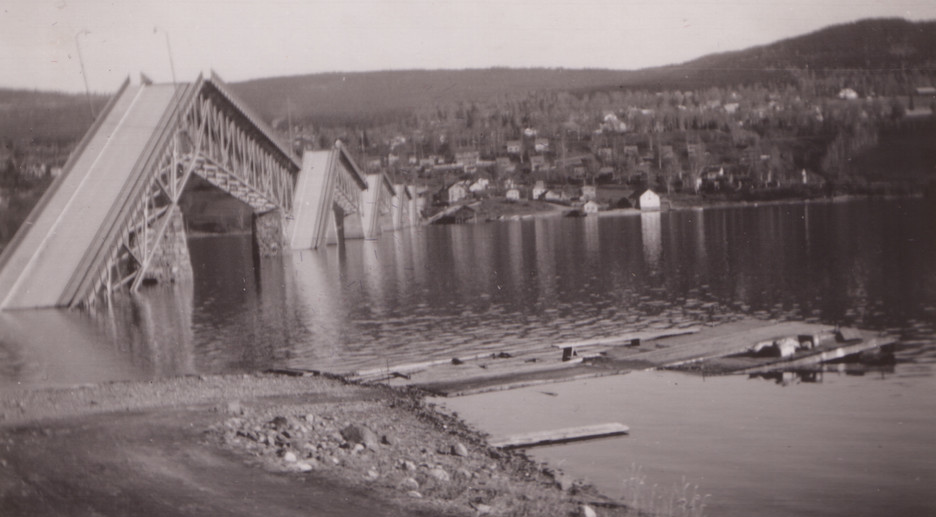 Vingnesbrua after it has been blasted by the norwegian resistance.